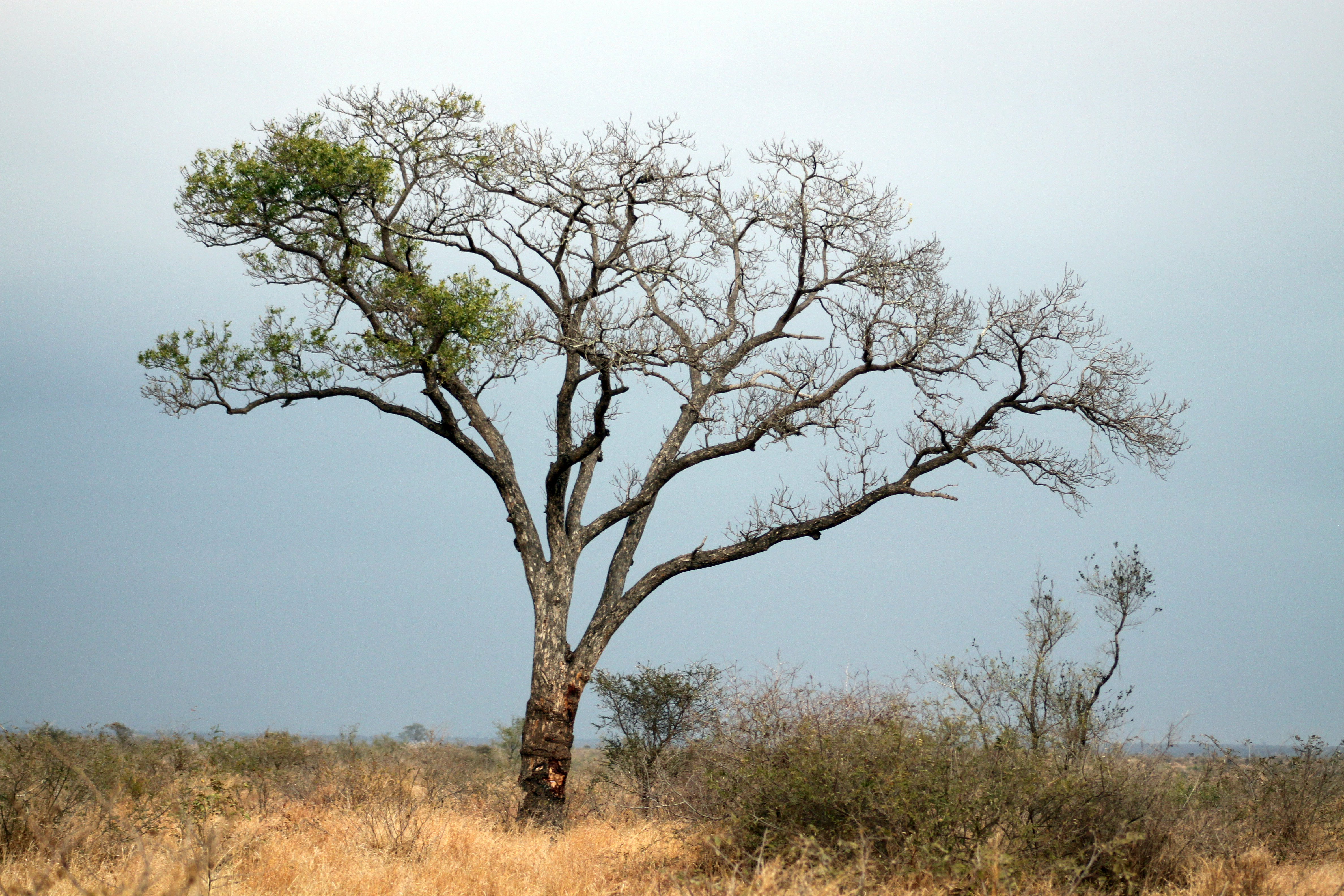 Kruger National Park, South Africa